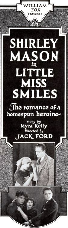 Advertisement for the American drama film Little Miss Smiles (1922) with Shirley Mason, Gaston Glass, and Arthur Rankin, on page 11 of the February 4, 1922 Exhibitors Herald.